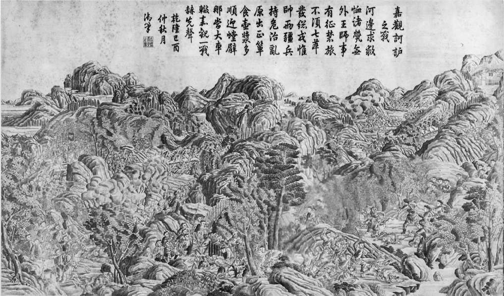 A scene of the Chinese Campaign against Annam (Vietnam) 1788 - 1789